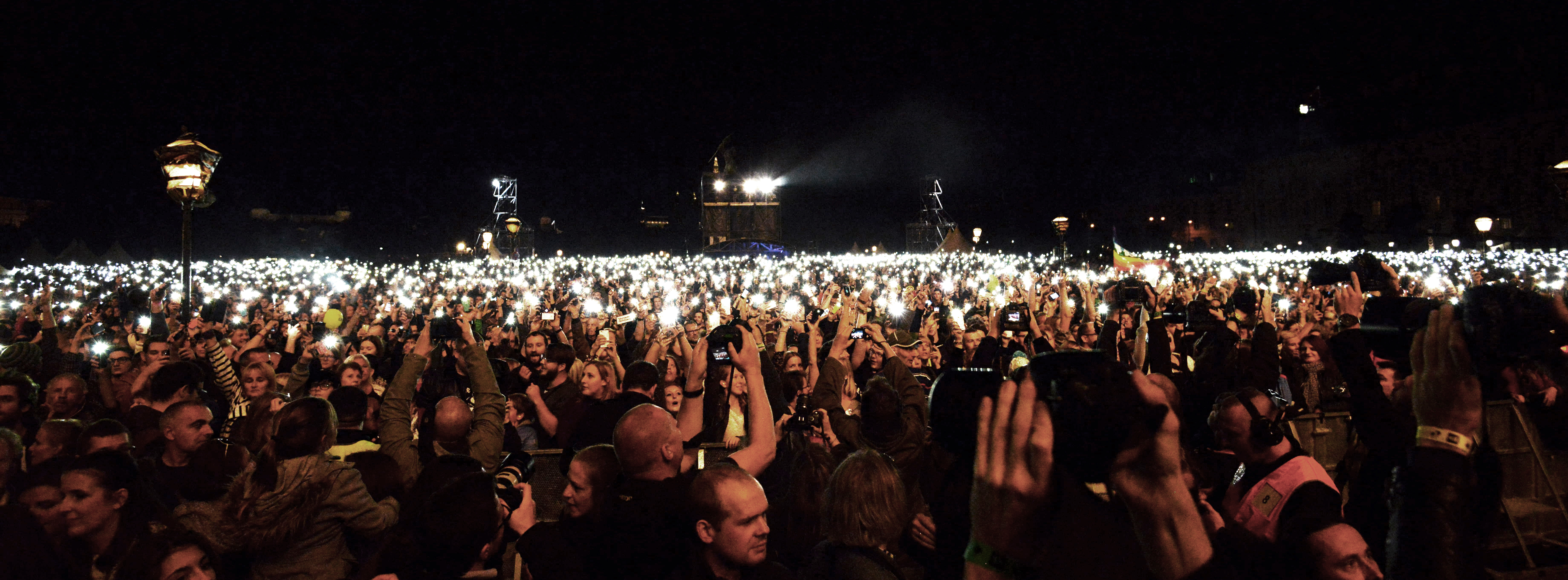 Solidarity-Concert "Voices for Refugees"; Vienna Oct. 3rd 2015